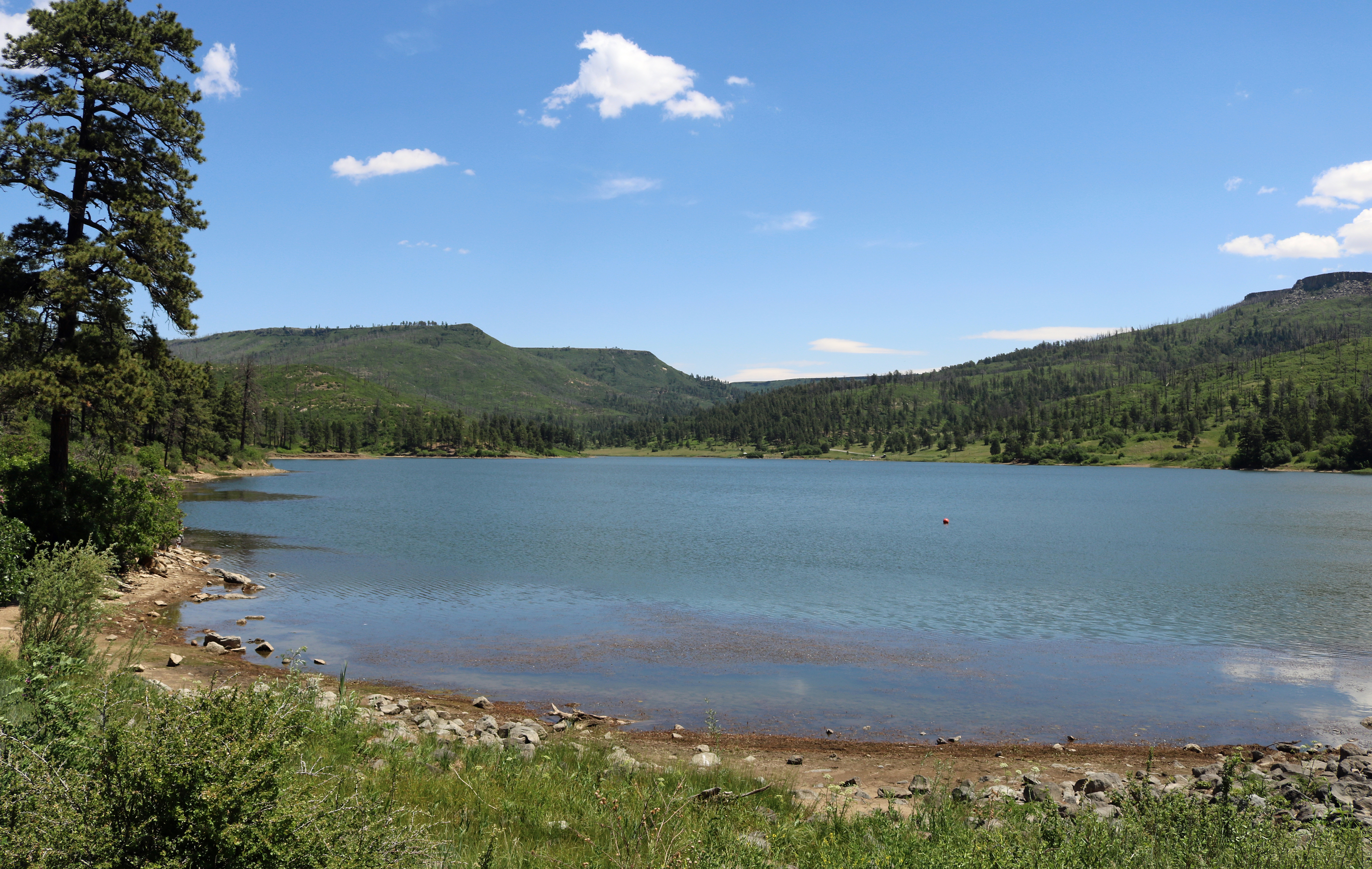 Lake Maloya in Sugarite Canyon State Park in Colfax County, New Mexico. The northern part of the lake is in Las Animas County. Colorado.